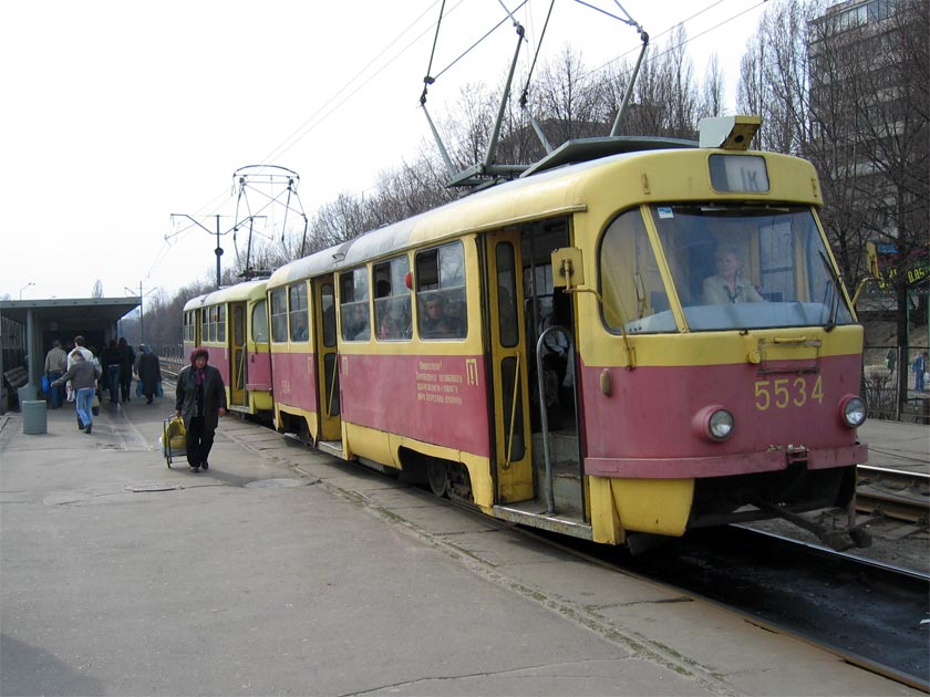 Politechnichna Station of Kyiv Fast Tram